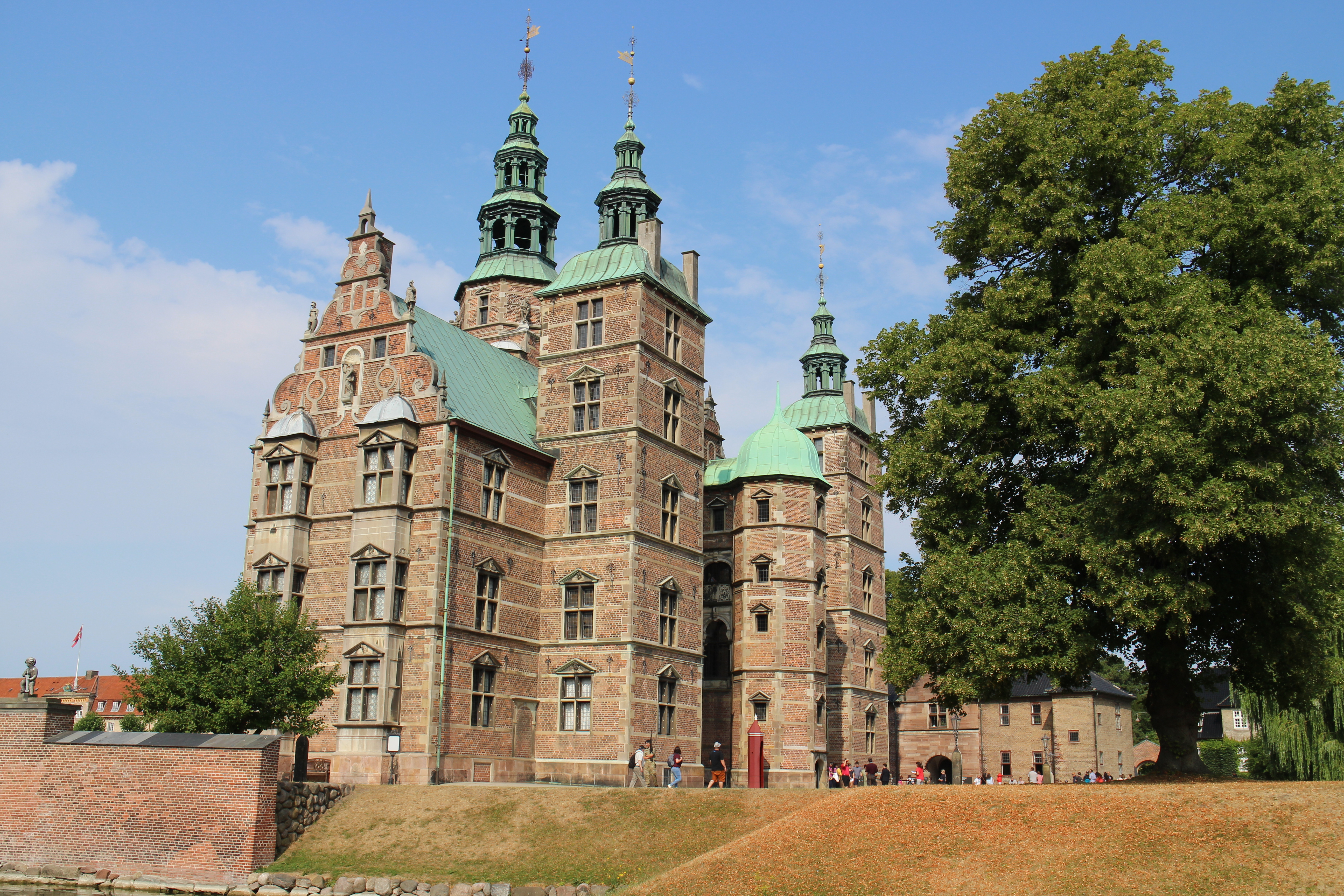 Rosenborg Castle buildings